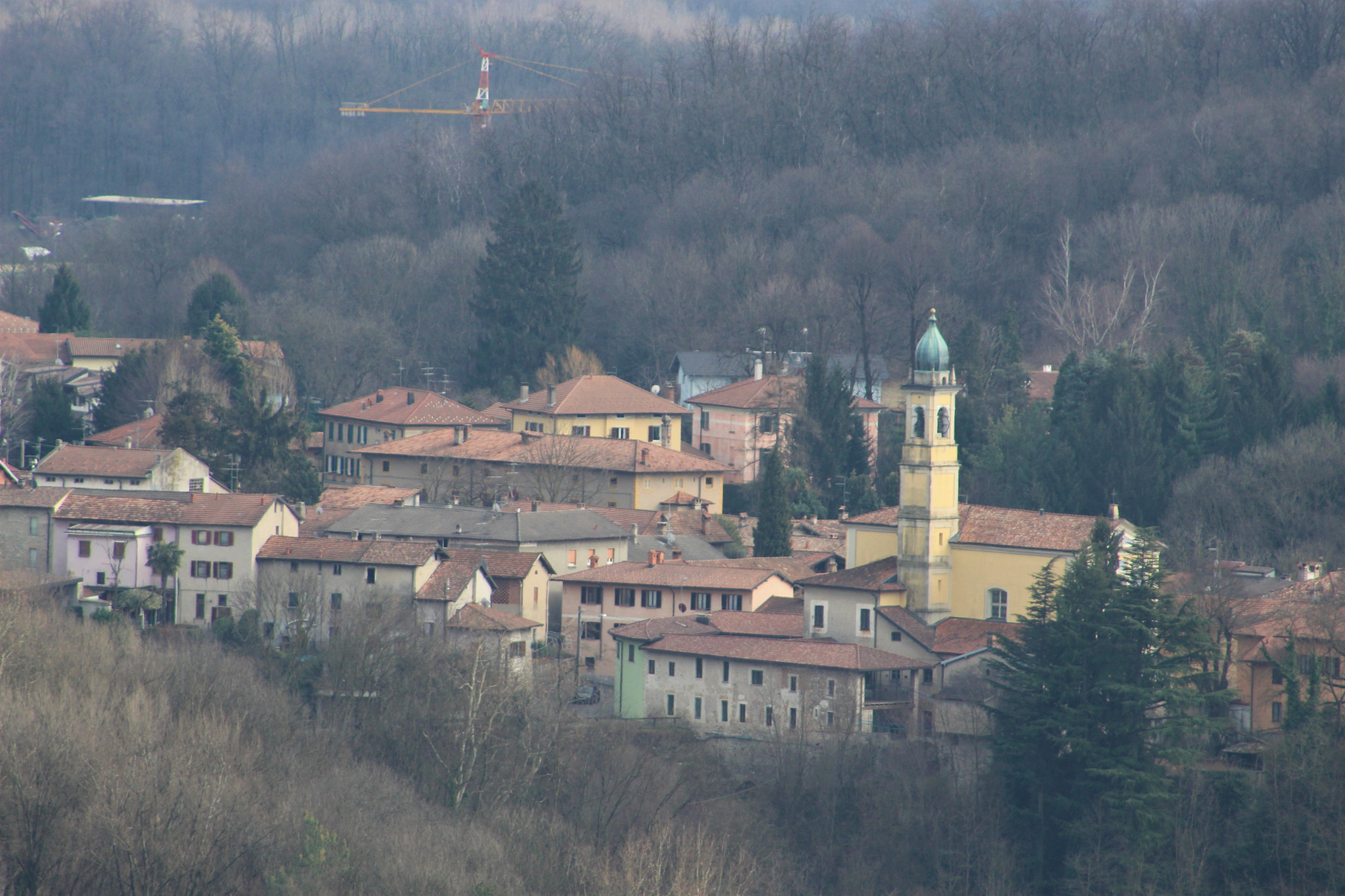 Valmorea - San Biagio in Casanova Lanza (view from Colle San Maffeo in Rodero)